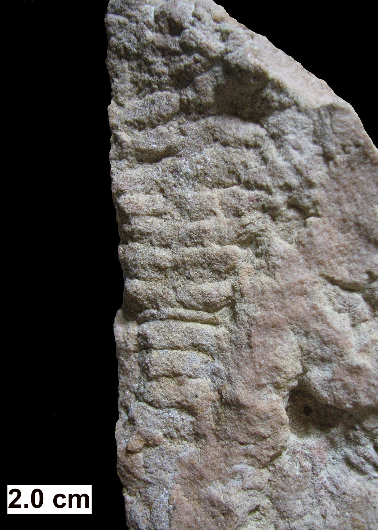 The euthycarcinoid Mosineia macnaughtoni Collette & Hagadorn, 2010---the presumed maker of some of the Protichnites at Blackberry Hill, Wisconsin; Elk Mound Group; Middle to Late Cambrian; collected by K.C. Gass in 2006.